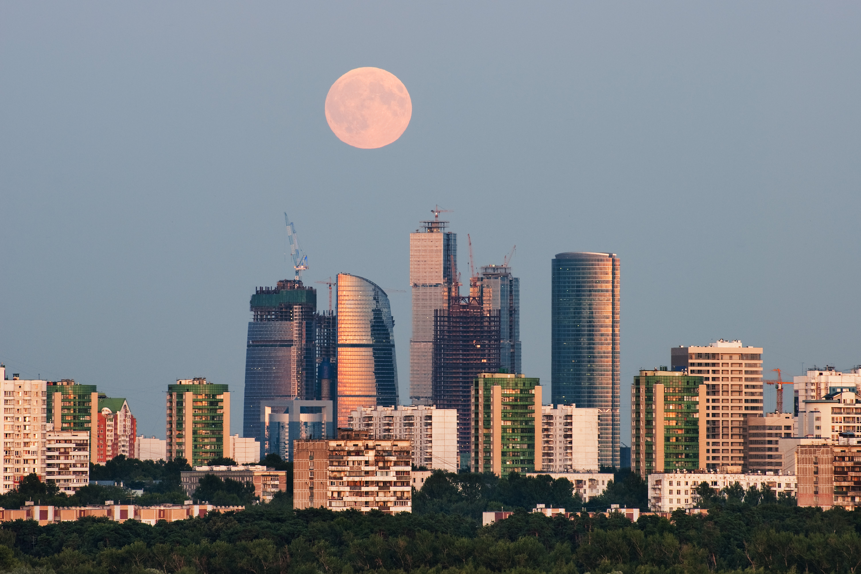 Moscow-City, August 2009